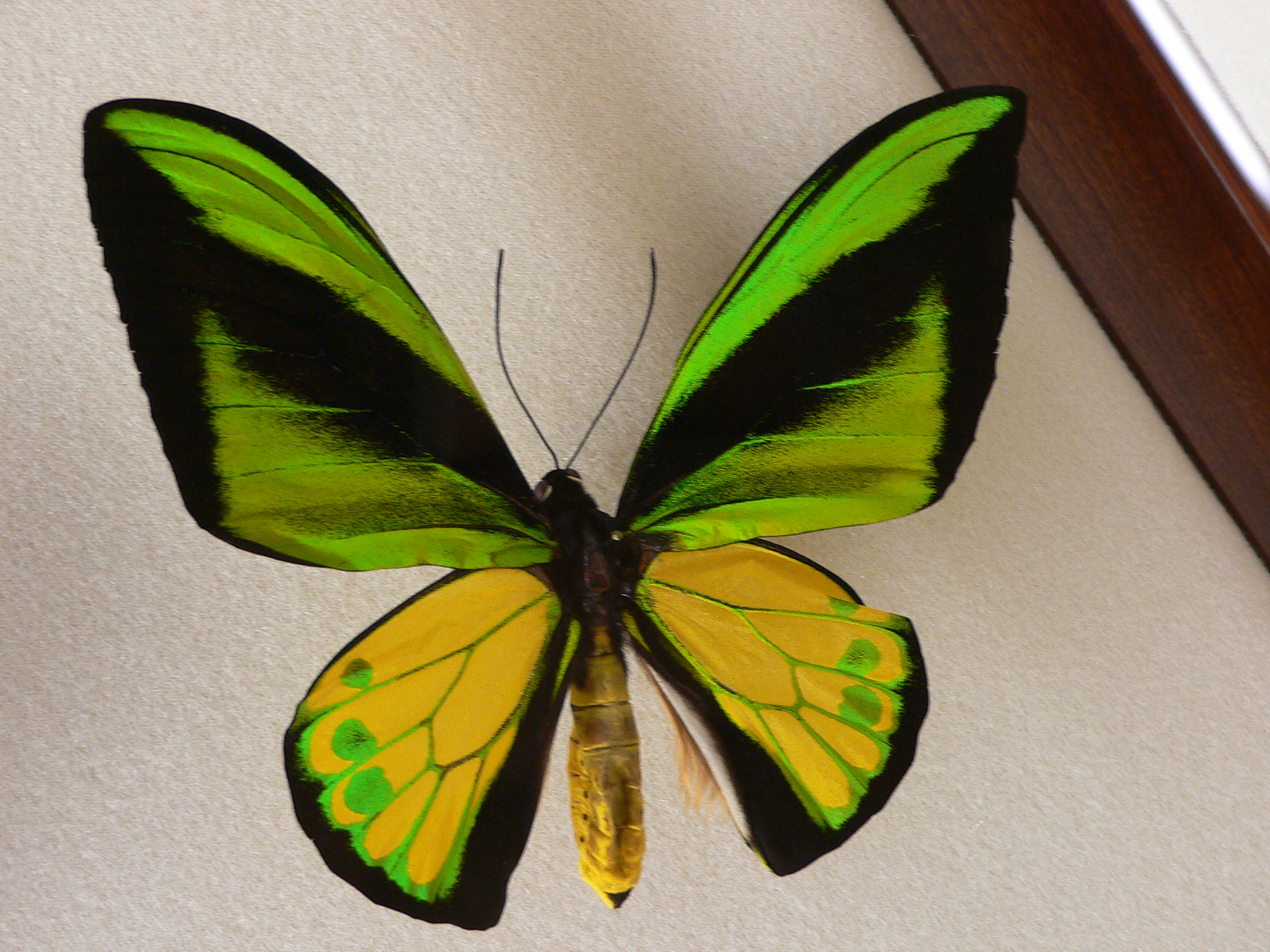 Pictures taken by myself at the Audubon Insectarium